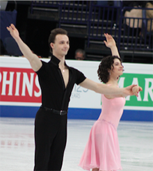 Natalia Kaliszek and Maksym Spodyriev in 2017